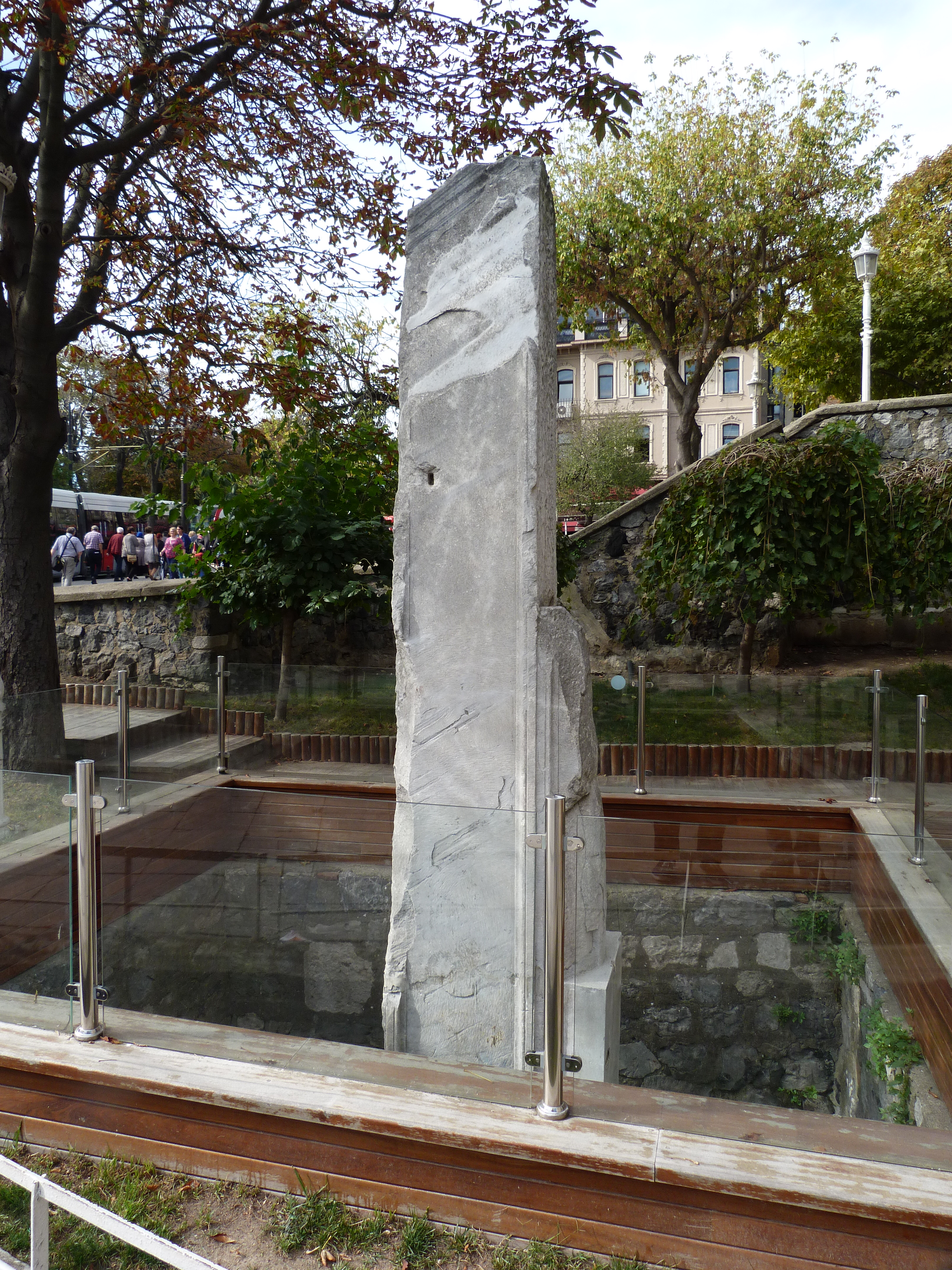 Live on the 23rd of October, 2014. Isztambul, Milion Stone. It was erected in the early 4th century AD. This Stone was the beginning point of the Roman main road Via Egnatia extending between the Adriatic and Constantinople as well as the zero point that was used to measure the distance of other cities to this city. The stone is a tetrapylon that highly resembles the Milliarium Aureum Stone (Golden Milestone) located within the Fori Romani (Roman Forum) built by Augustus. When Emperor Constantine I the Great rebuilt the city of Byzantium to make it his new imperial capital, which he named Nova Roma ("New Rome"), he consciously emulated many of the features of "Old Rome". Among these was the Milion: it was a tetrapylon surmounted by a dome, built in the first Region of the city, near the old Walls of Byzantium, at the very beginning of the main thoroughfare of the new city, the Mese (Μέση Οδός), which at that point formed a bend. The new building fulfilled the same role as the Milliarium Aureum in Rome: it was considered as the origin of all the roads leading to the European cities of the Byzantine Empire, and on its base were inscribed the distances of all the main cities of the Empire from Constantinople. ©© Derzsi Elekes Andor, Budapest, 2014, Published in the Metapolisz DVD line. You are authorised to use this photo under Creative Commons – even for commercial, for profit purposes. The vid must be attributed to Derzsi Elekes Andor. All of the photos and vids in the Metapolisz DVD line are under Creative Commons and can be used even for commercial – for profit – purposes. Recommended Citation Derzsi Elekes Andor: Metapolisz DVD line